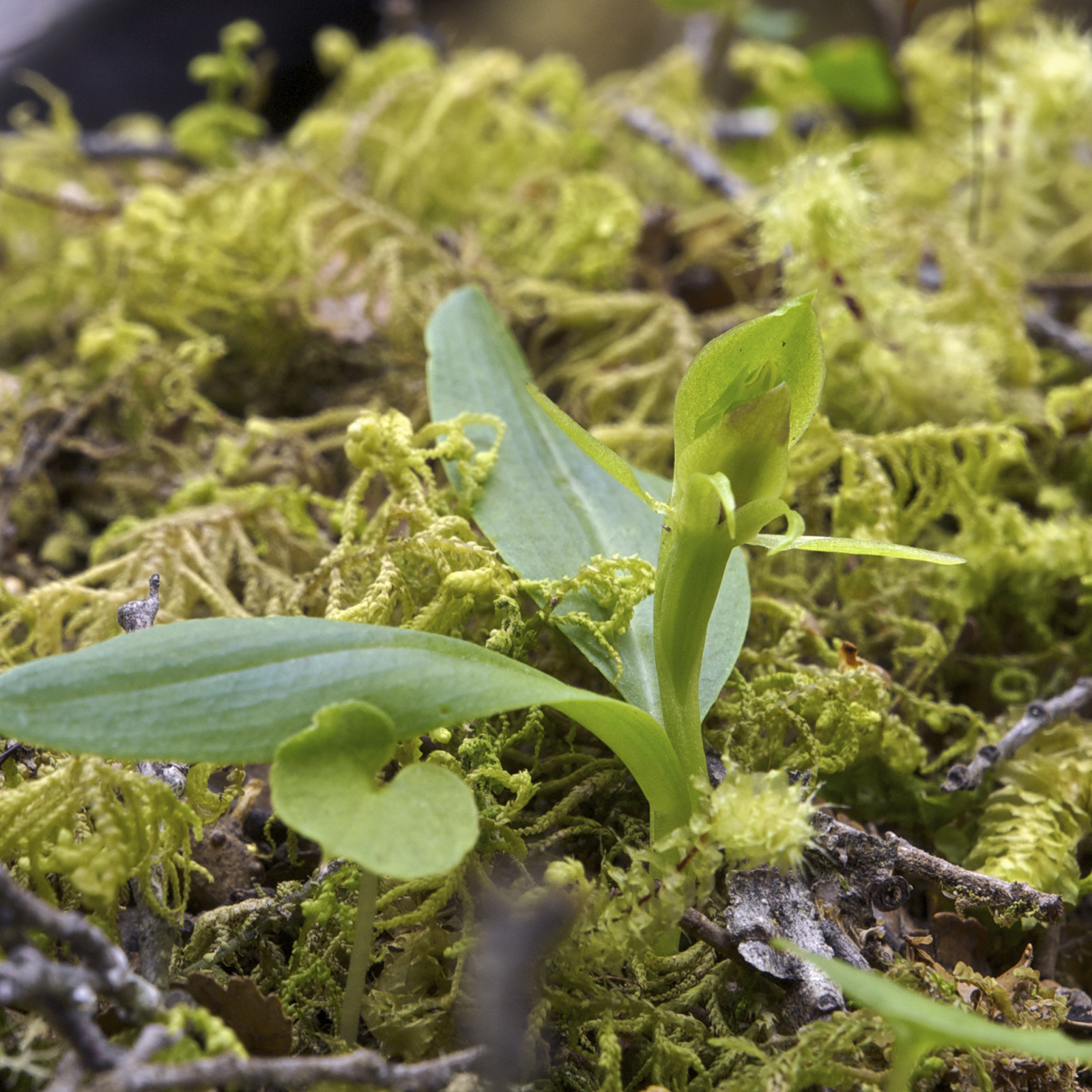 Green Bird Orchid (Chiloglottis cornuta), Kepler Track, New Zealand